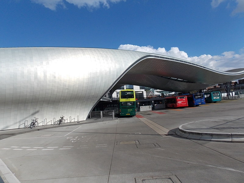 Side view of Slough bus station